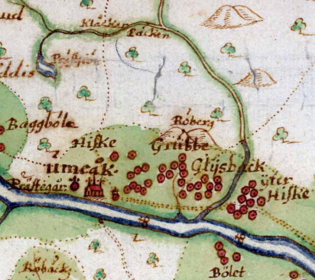 Part of Johan Persson Gedda's map of Umeå parish from 1661. In the middle flows the river Umeälven. On the north side of the river are the villages Baggböle, Hiske, Grubbe, Grisbacka och Ytterhiske. Near Hiske is Umeå church (now: Backen church). On the south side of the river is the village Böle. Red dots are tax-paying farms. In the upper part of the picture you can see Klockarbäcken and Prästsjön